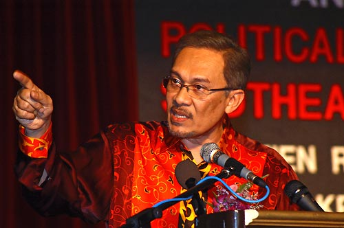 Picture of Anwar Ibrahim Speaking.